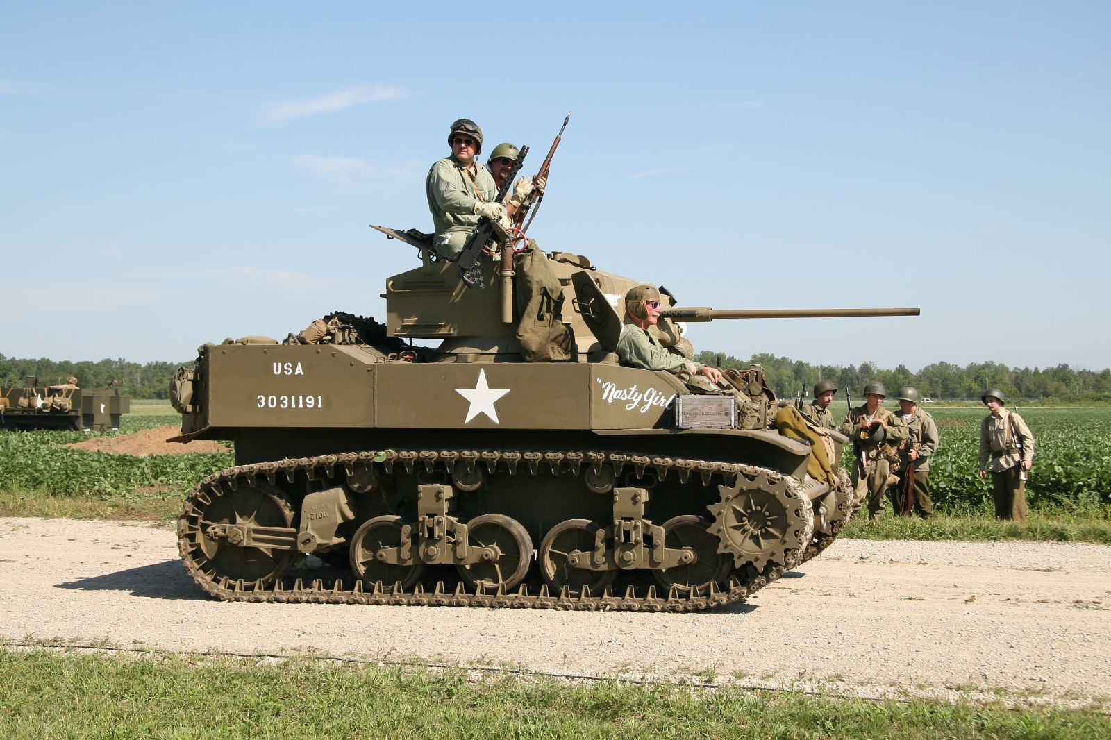 A M5 Stuart Light Tank, Thunder Over Michigan 2006.